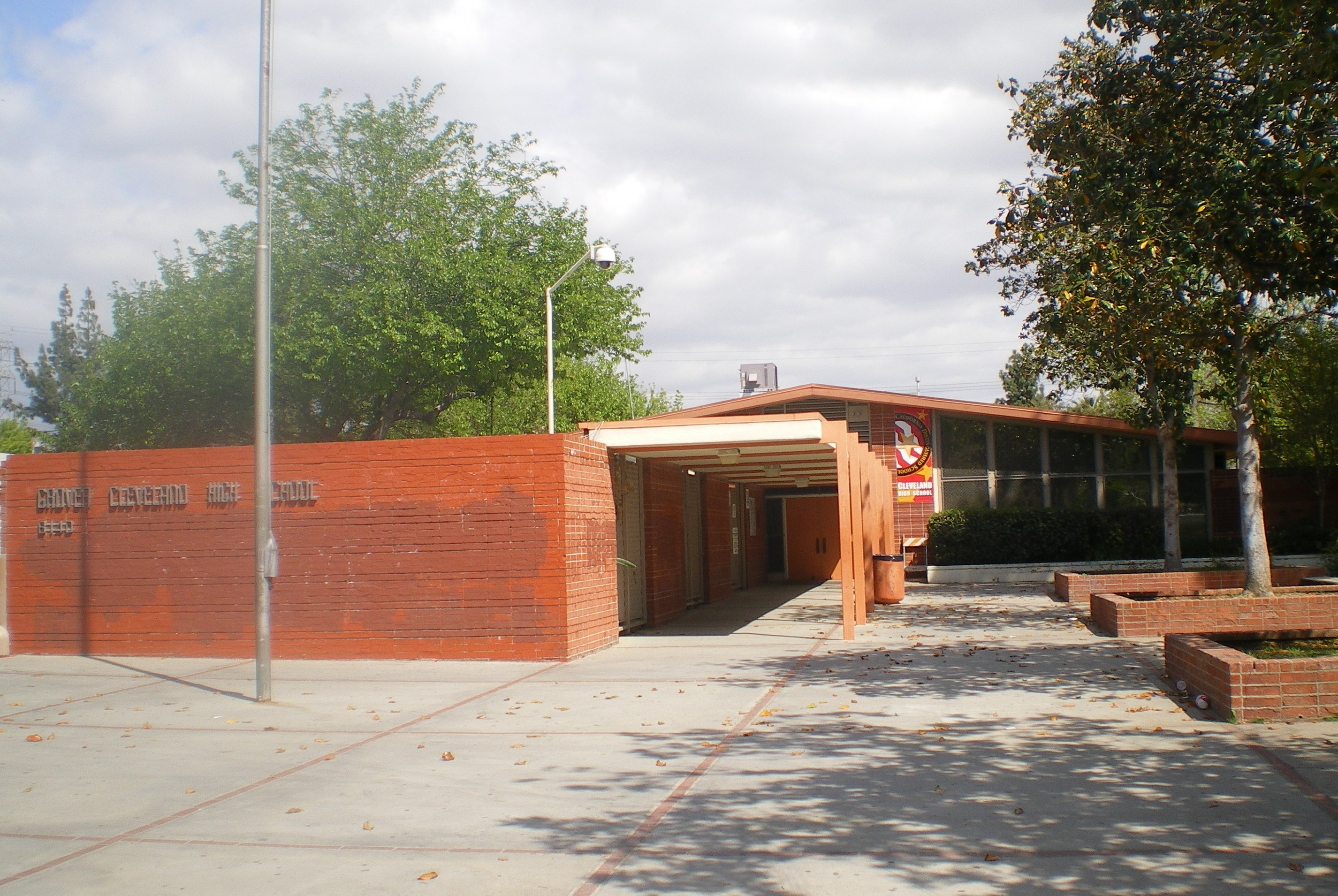 Cleveland High School — in Reseda, the western San Fernando Valley, Los Angeles, California.